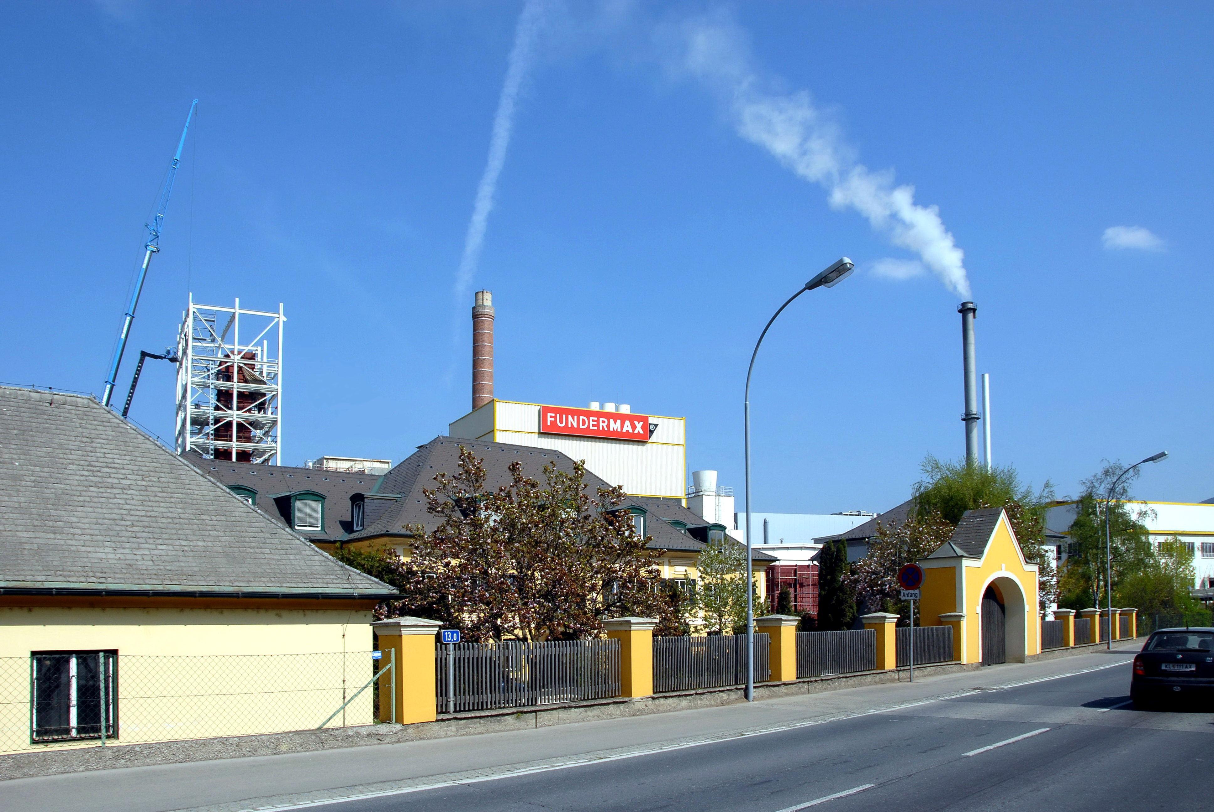 FunderMax facility #1 in the locality Glandorf, situated in the municipality Sankt Veit an der Glan, district Sankt Veit an der Glan, Carinthia, Austria